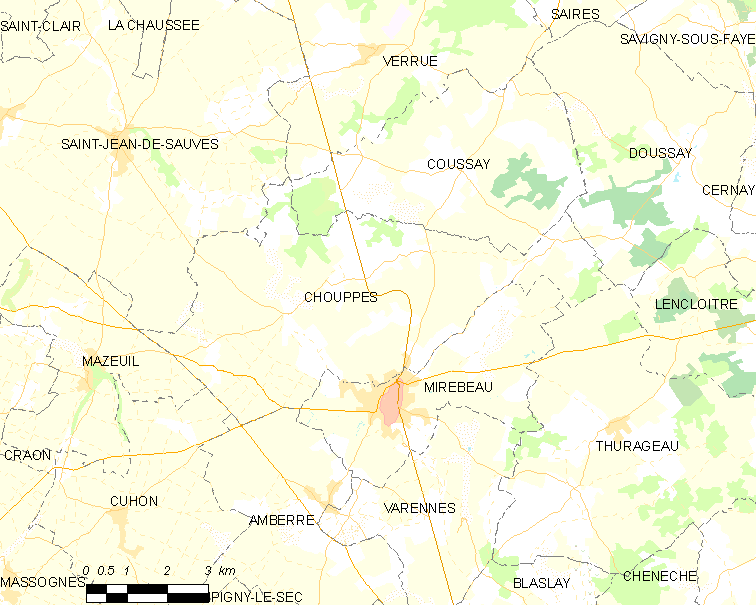 Map of French municipality Chouppes